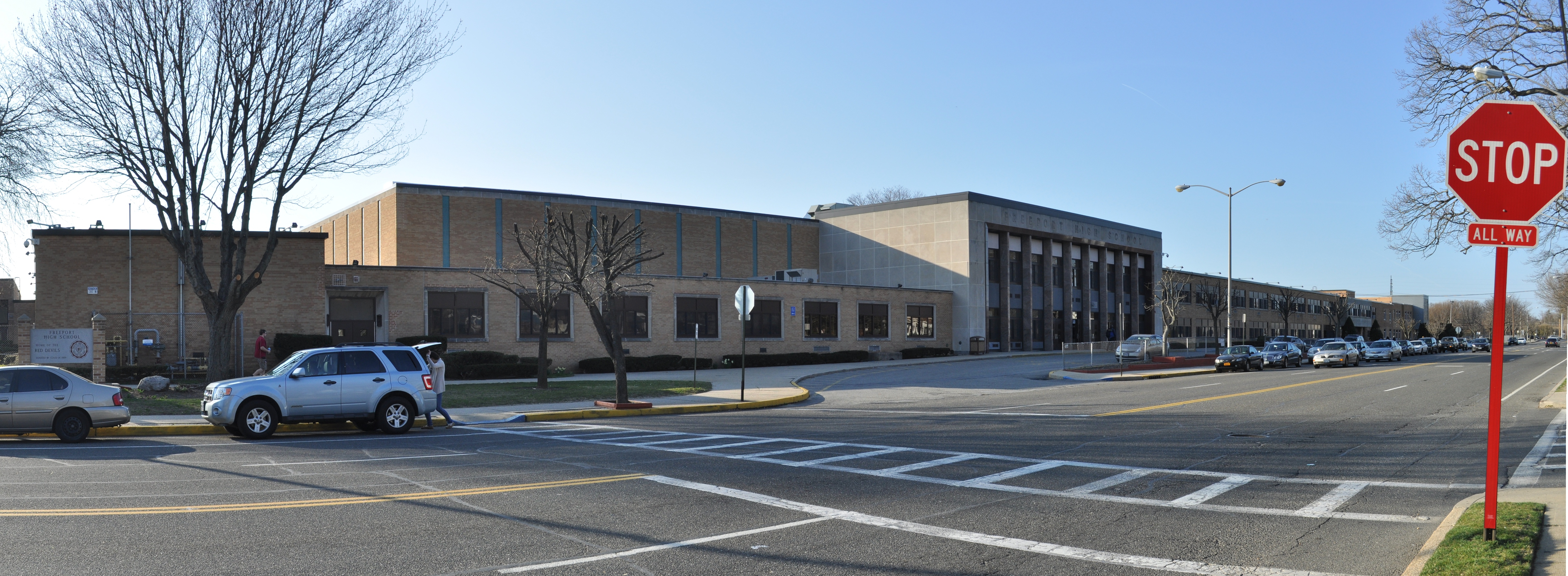 Panoramic view of Freeport High School, Freeport, Long Island, New York. This image was created with Hugin.